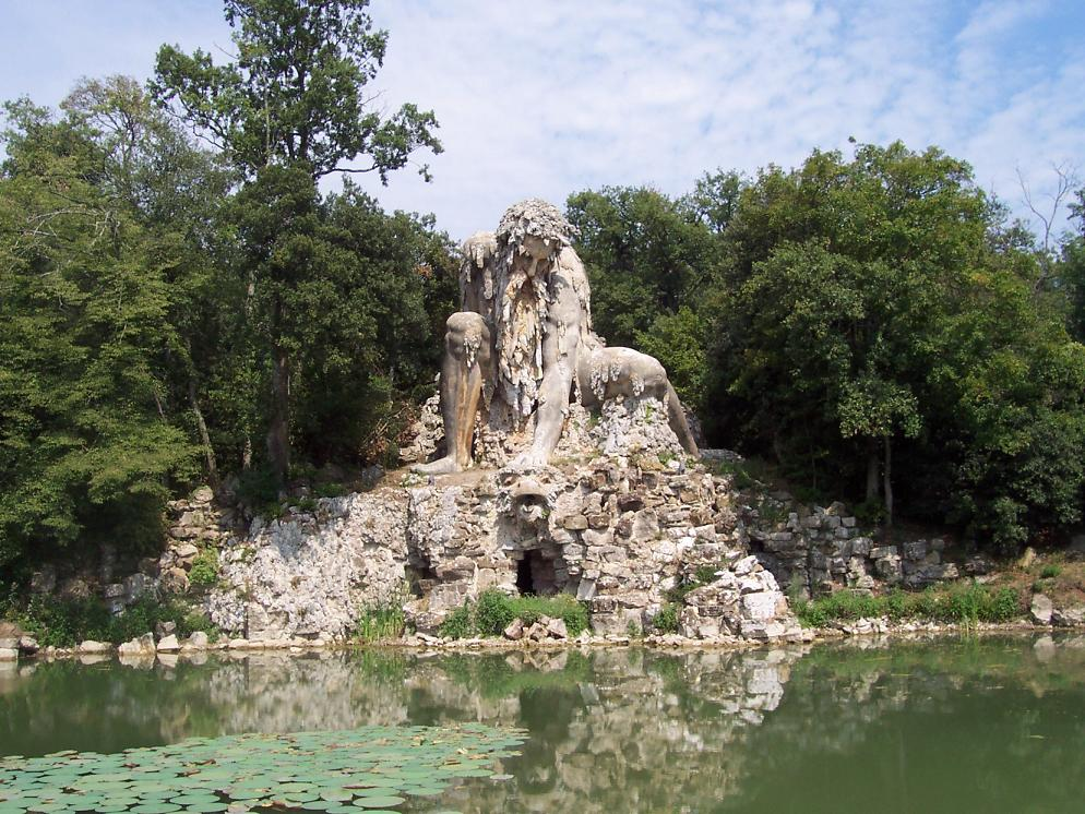 Sculpture of "Appennino" from Giambologna. Located in Villa Demidoff, Pratolino (Florence, Italy)